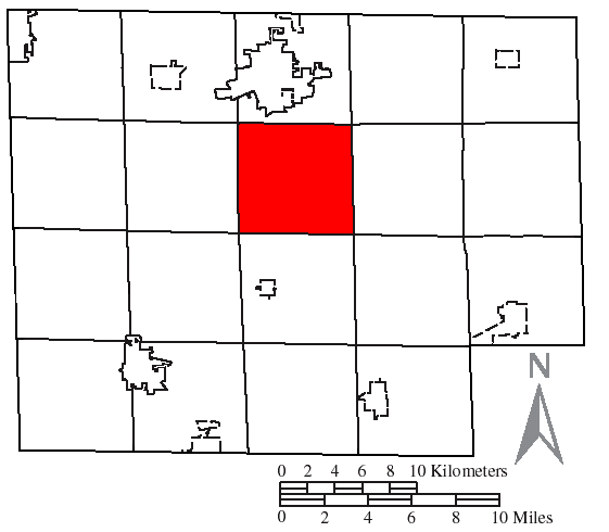 Made by the US Census and modified by myself